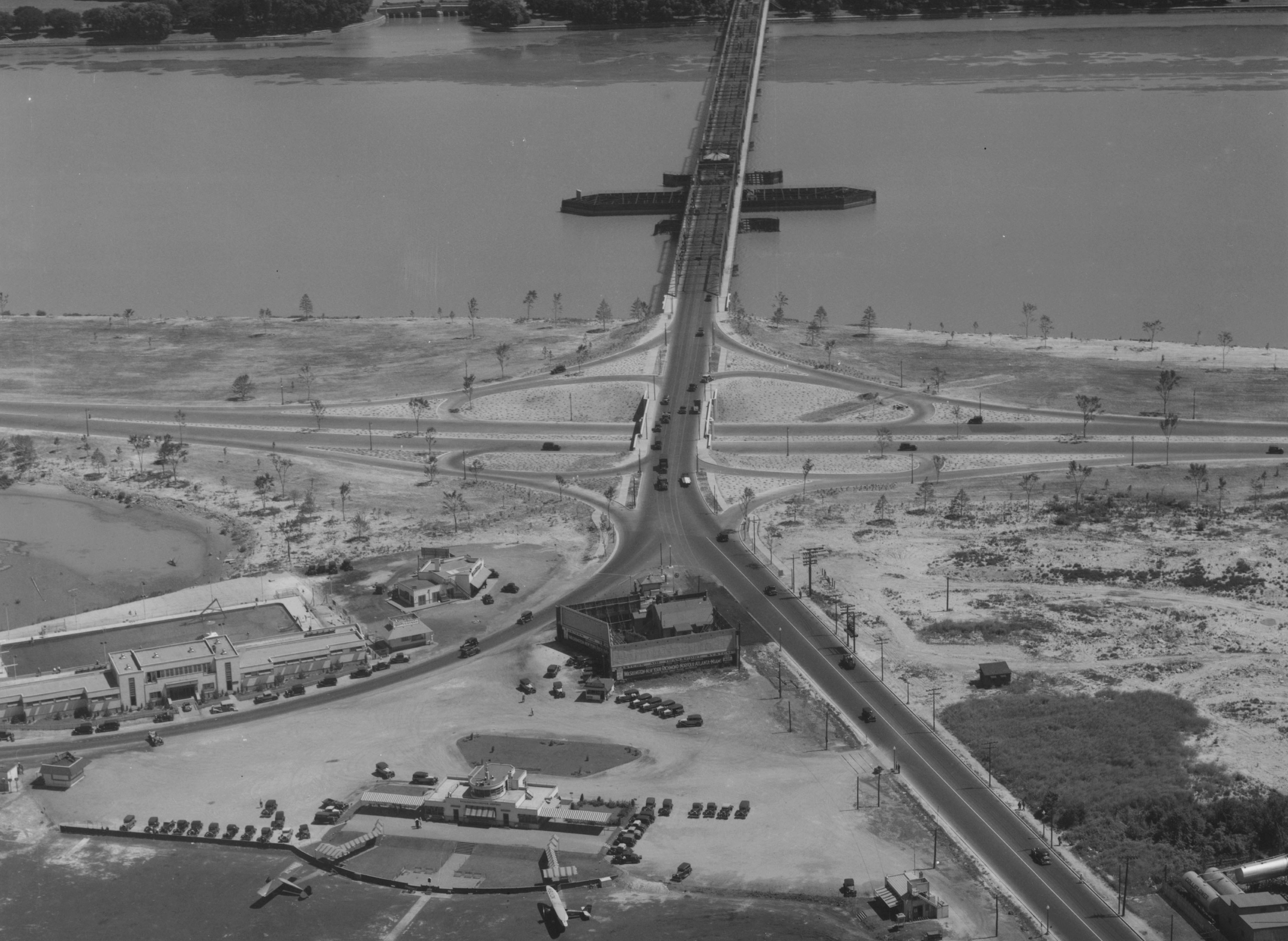 This is a crop of a 1932 photo of the Long Bridge (now the 14th Street Bridge) over the Potomac River, looking from Virginia towards the District of Columbia. And the bottom left of the photo is Hoover Field, a major airport serving the city of Washington, D.C. The road (bottom, curving right) is Military Road. At the bottom right is the northern end of Washington Airport, another major airport serving the city. The image is part of the U.S. Bureau of Public Roads Photographs collection from the National Archives, reproduced as part of the Historic American Engineering Record.